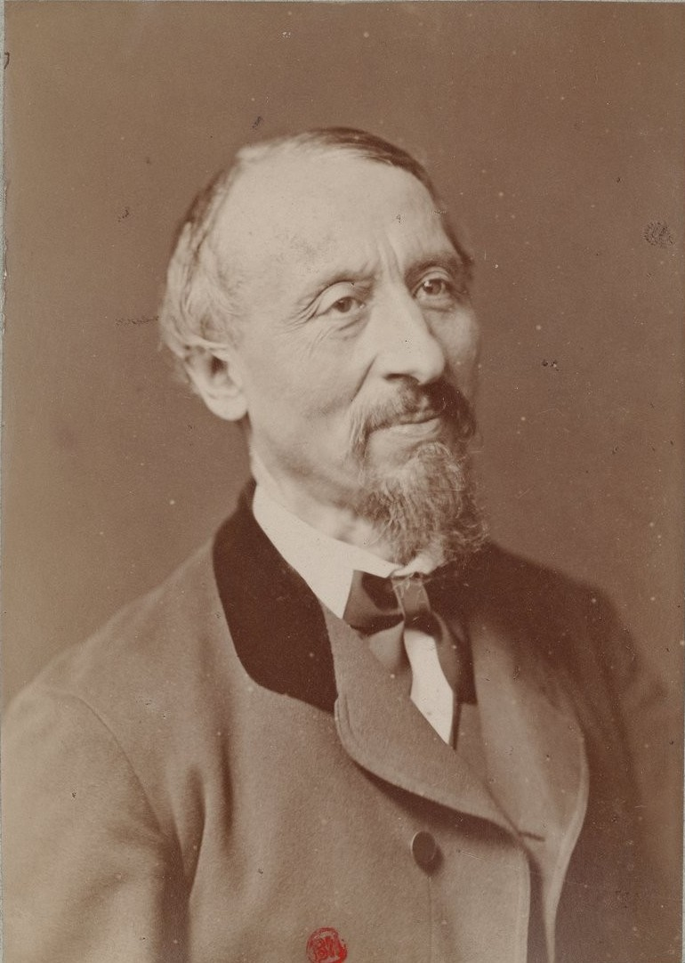 Henry Blaze de Bury by Nadar